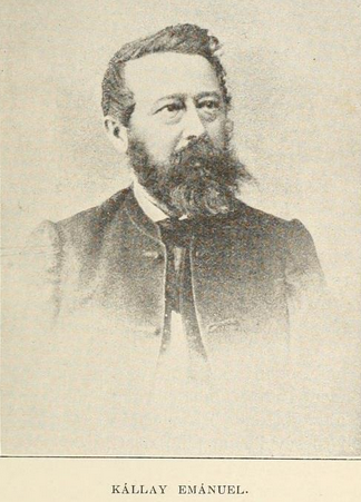 Portrait of Kállay Emánuel